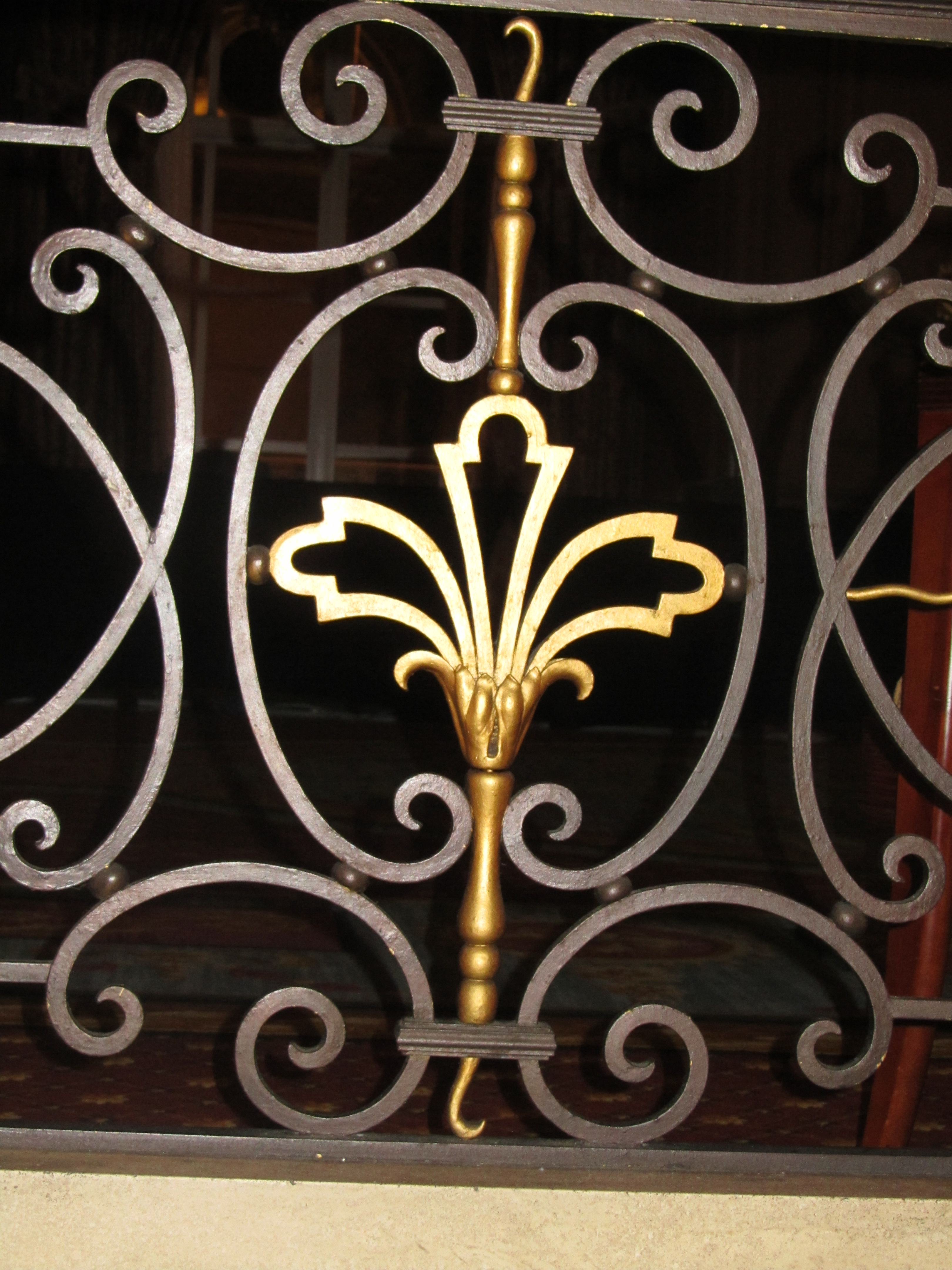 detail of ornament in ballroom lobby in Hilton Chicago